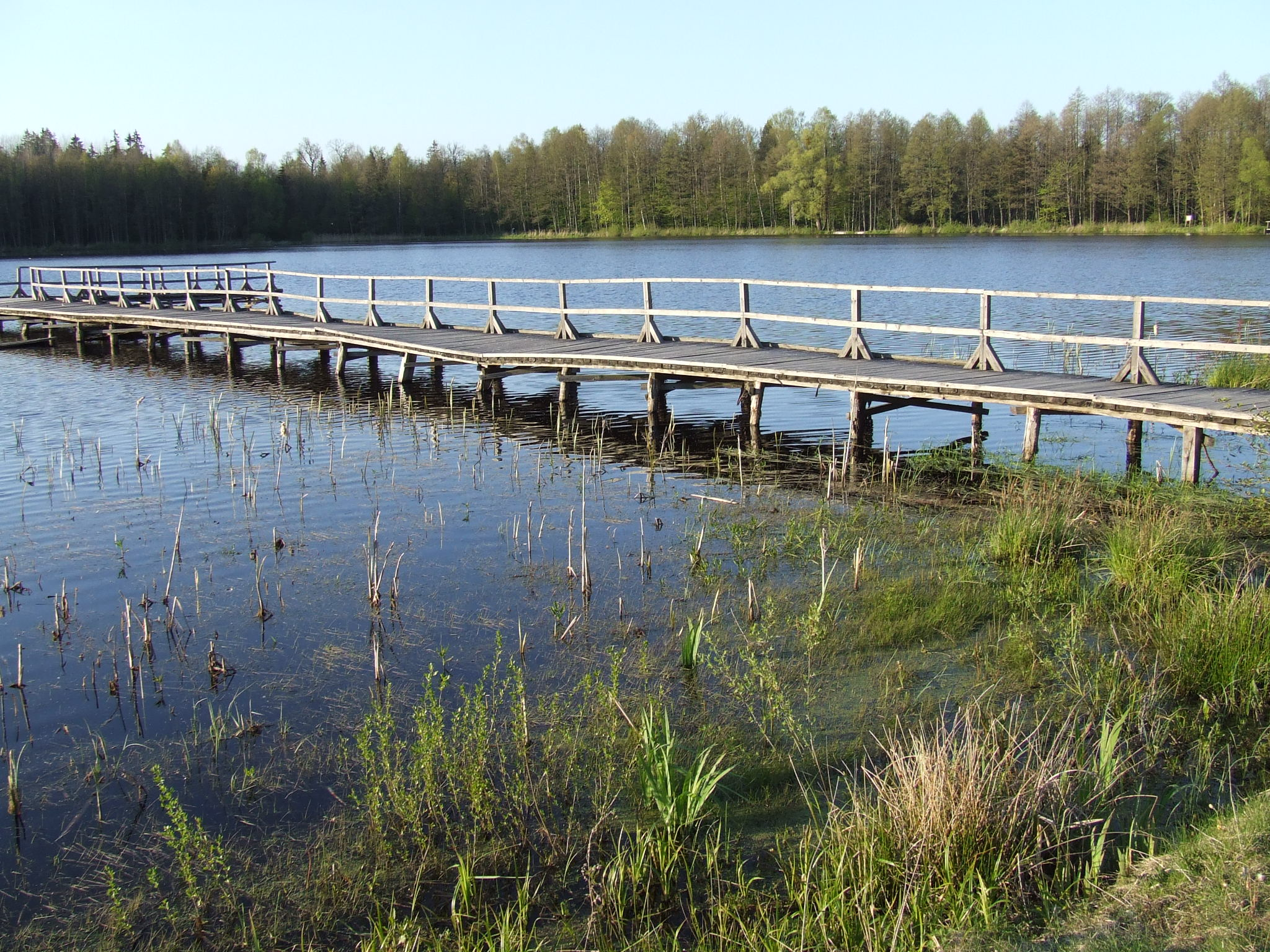 Lake in Topilo, Poland.